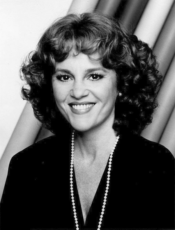 Publicity photo of Madeline Kahn for her TV series, "Oh Madeline"